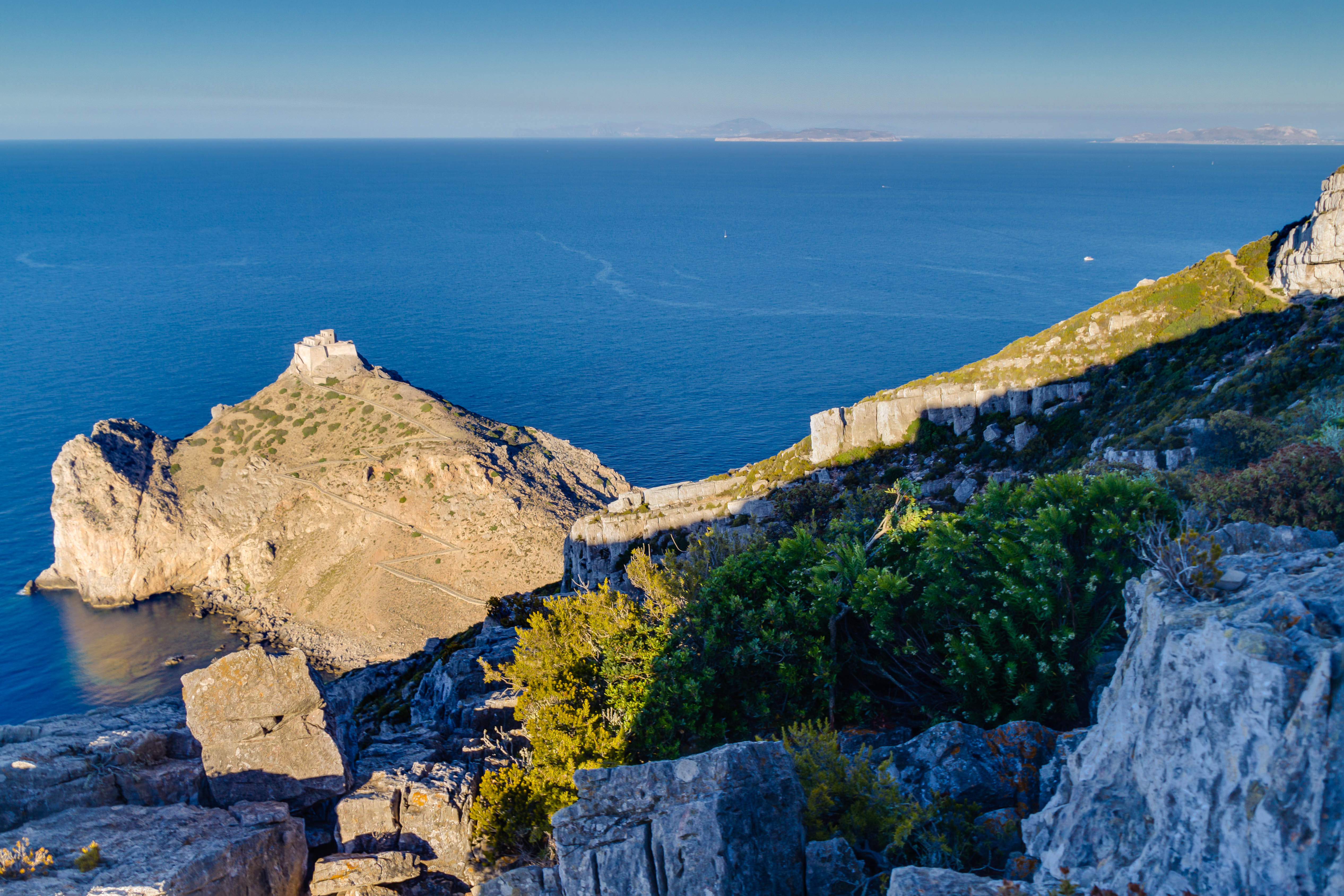 ... although I'm not sure it deserved to be. In the background Levanzo (left) and Favignana (right). Further away Sicily's coast. The castle on the top of the Punta was originally a watchtower built by the Saracens, later turned into a prison. Nowadays it hosts a museum. For this one I've blended together three bracketed shots using LR/Enfuse.